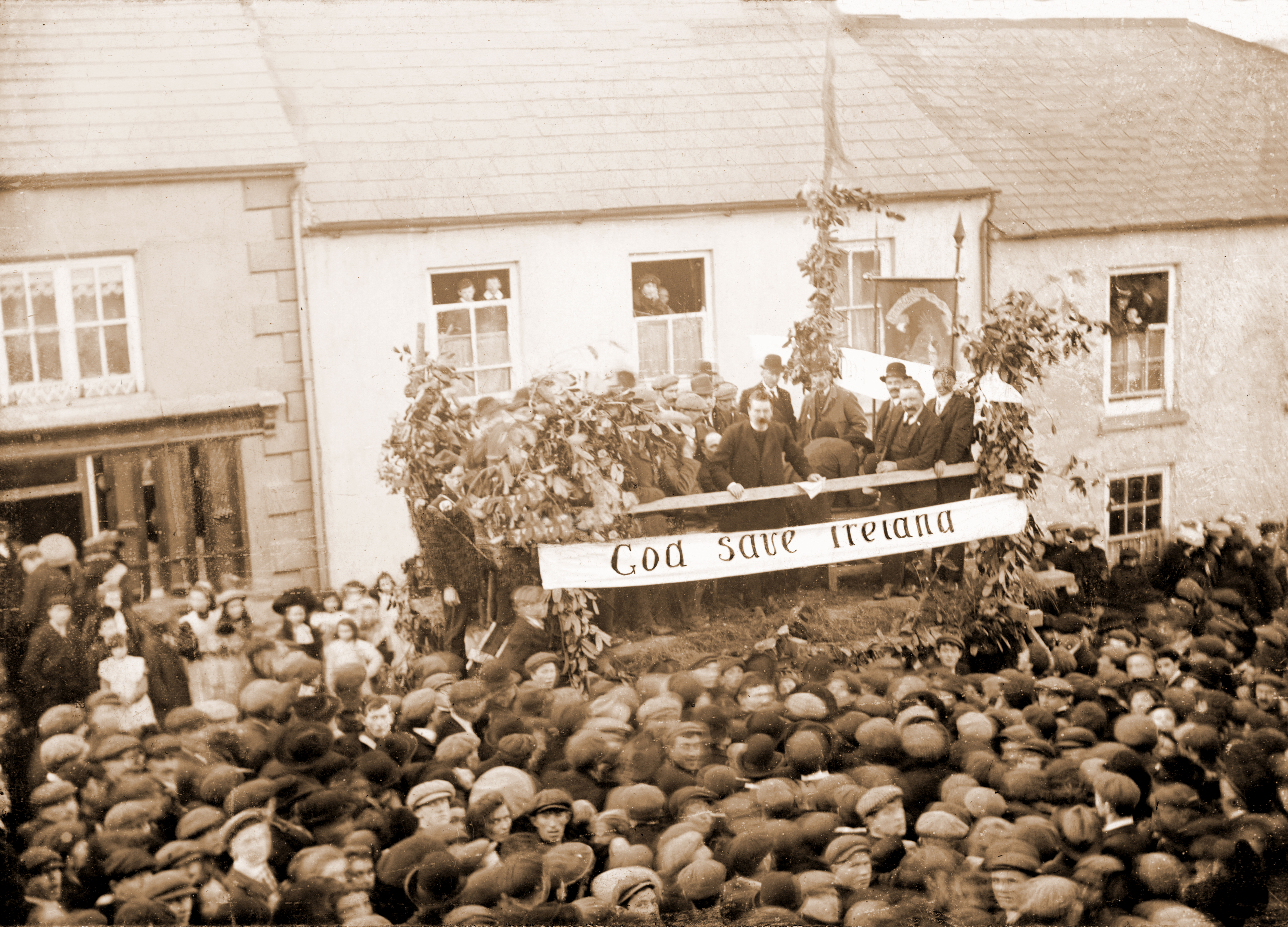 Image of D. D. Sheehan addressing a large rally during an election campaign for the All-for-Ireland Party in 1910, at Newmarket, County Cork Ireland.